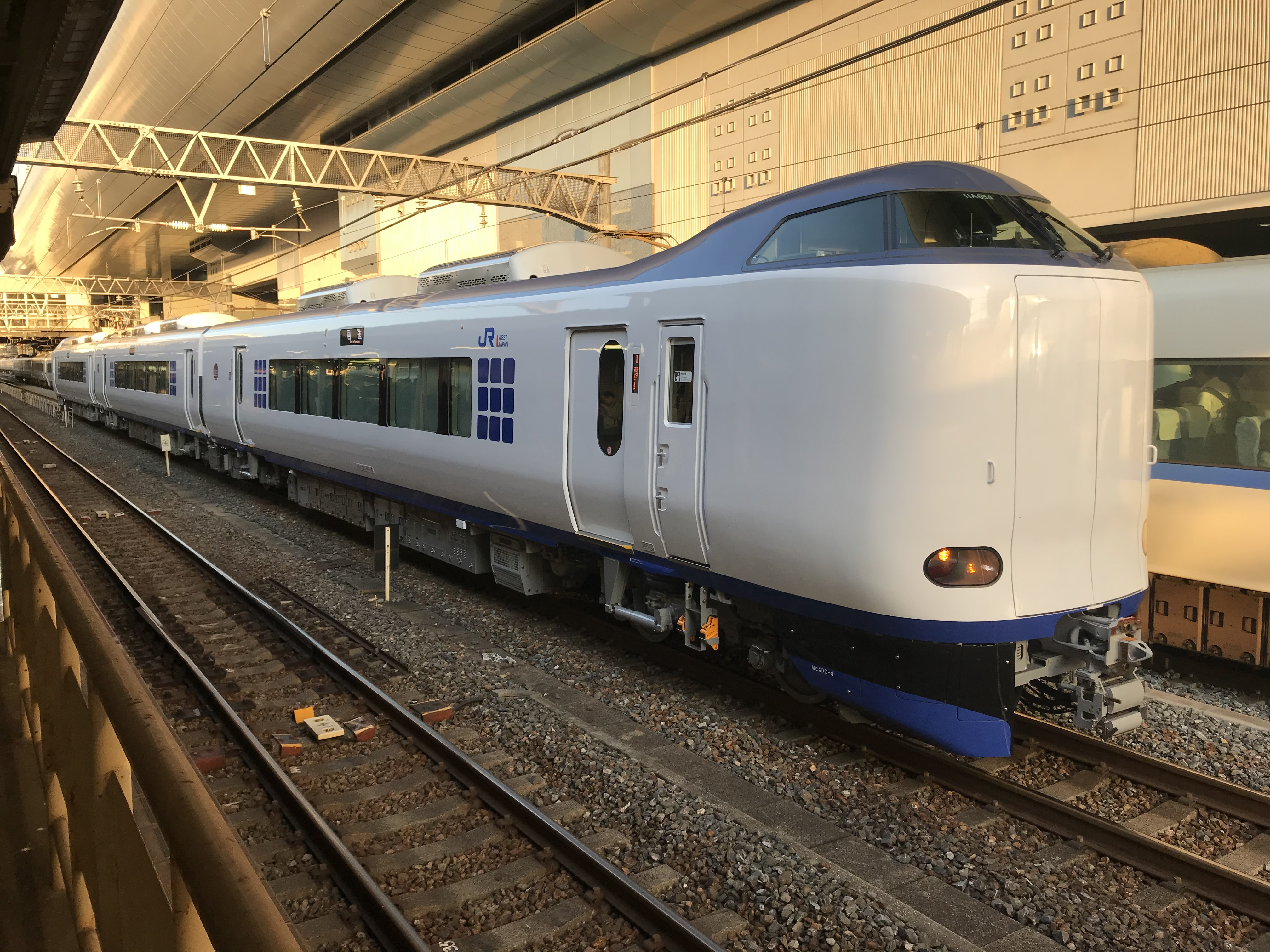 JR West 271 unit HA654 Tokyo side at Kyoto station